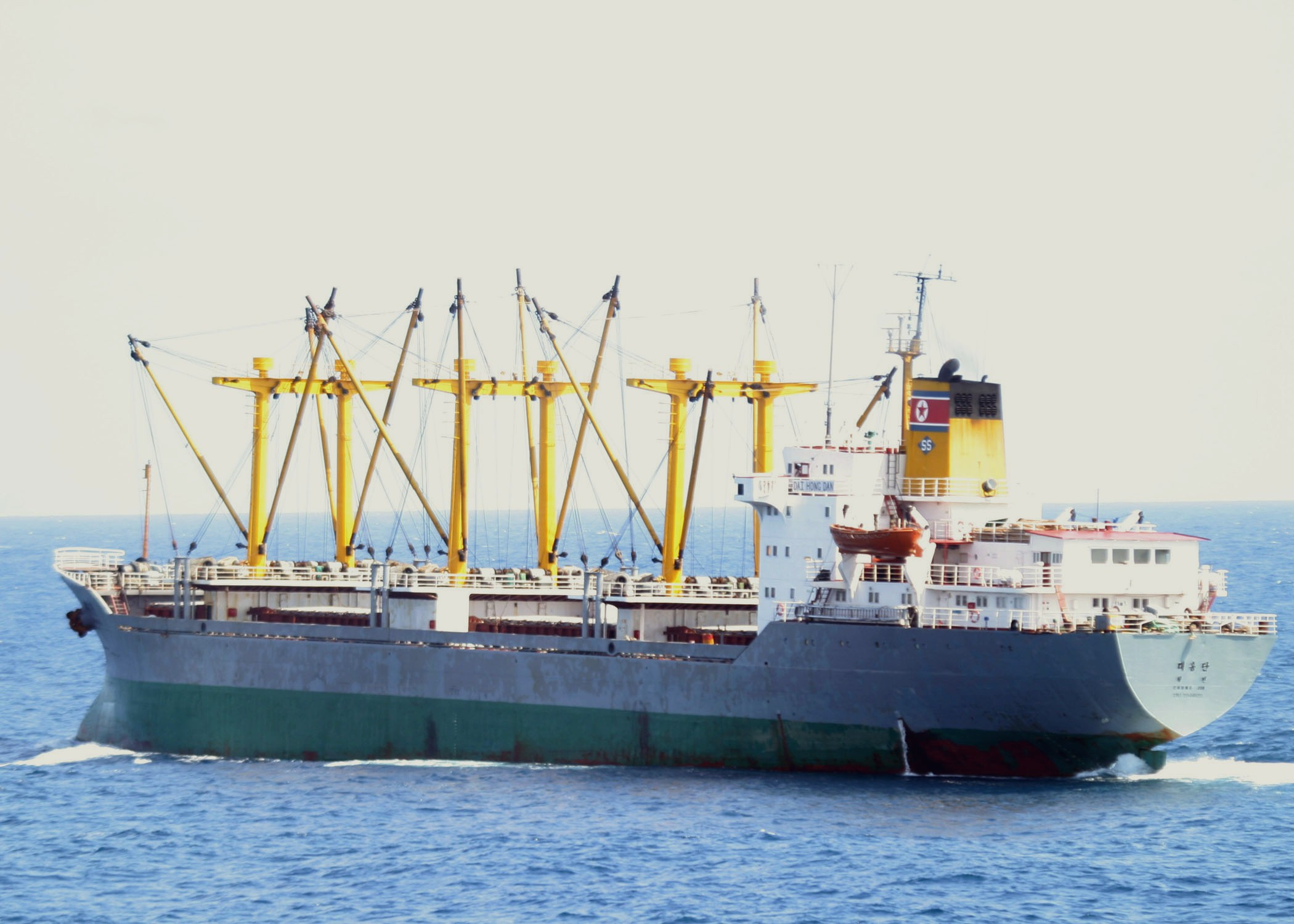 North Korean cargo vessel Dai Hong Dan transits off the coast of Somolia after the ship was hijacked by pirates Oct. 29. The crew was able to regain control of their vessel before contacting guided-missile destroyer USS James E. Williams (DDG 95) for medical assistance. IMO Number: 7944695 MMSI Number: 445125000 Callsign: HMYC Length: 131 m Beam: 18 m